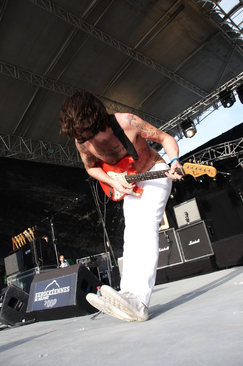 Biffy Clyro at the Eurockéennes 2008